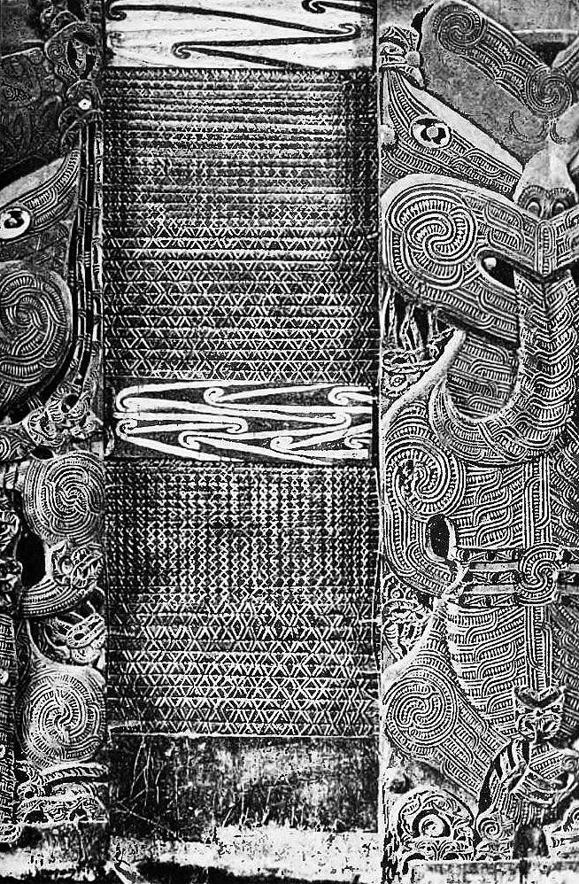 Maori tukutuku panel in the centre of two carved poupou. Image from a scanned PD book